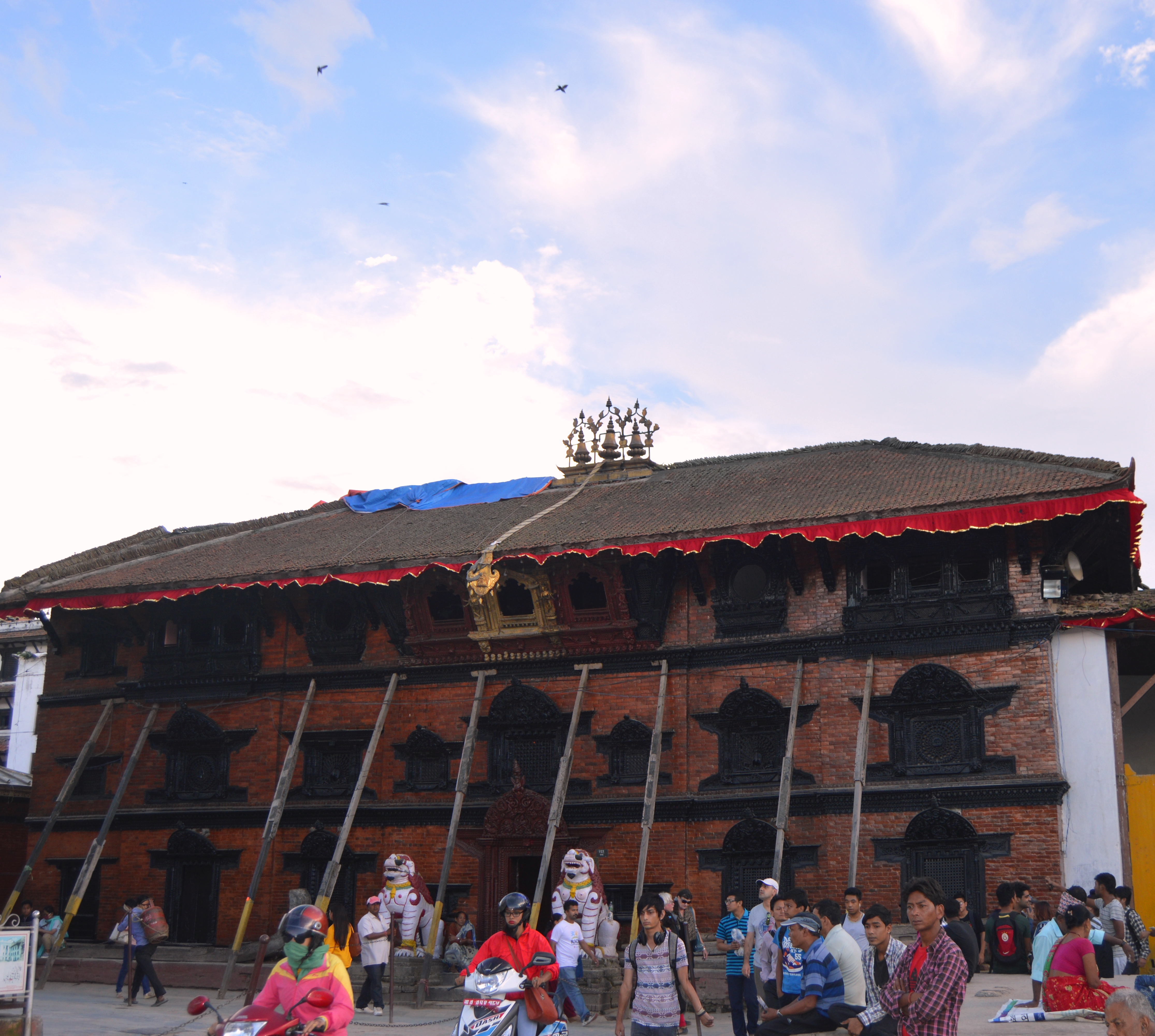 Kumari Ghar